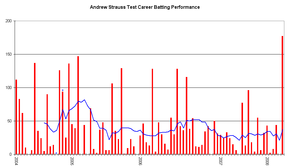 This graph details the Test Match performance of Andrew Strauss. It was created by Raven4x4x. The red bars indicate the player's test match innings, while the blue line shows the average of the ten most recent innings at that point. Note that this average cannot be calculated for the first nine innings. The blue dots indicate innings in which Strauss finished not-out. This graph was generated with Microsoft Excel 2002, using data from Cricinfo [1] and Howstat [2]. The information in this chart is current as of 30 March 2008.